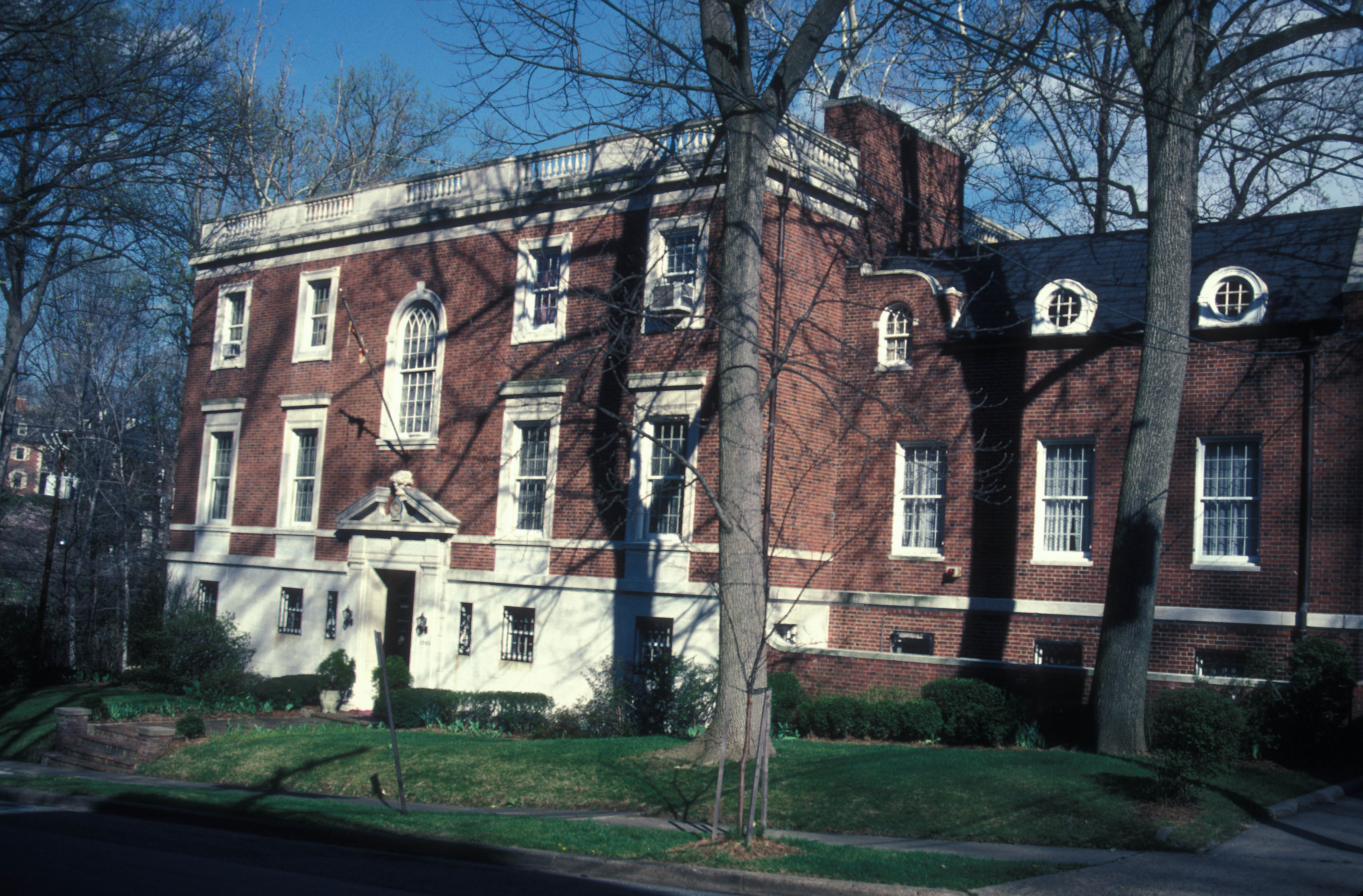 LOCATED IN THE KALORAMA SECTION OF NORTHWEST WASHINGTON